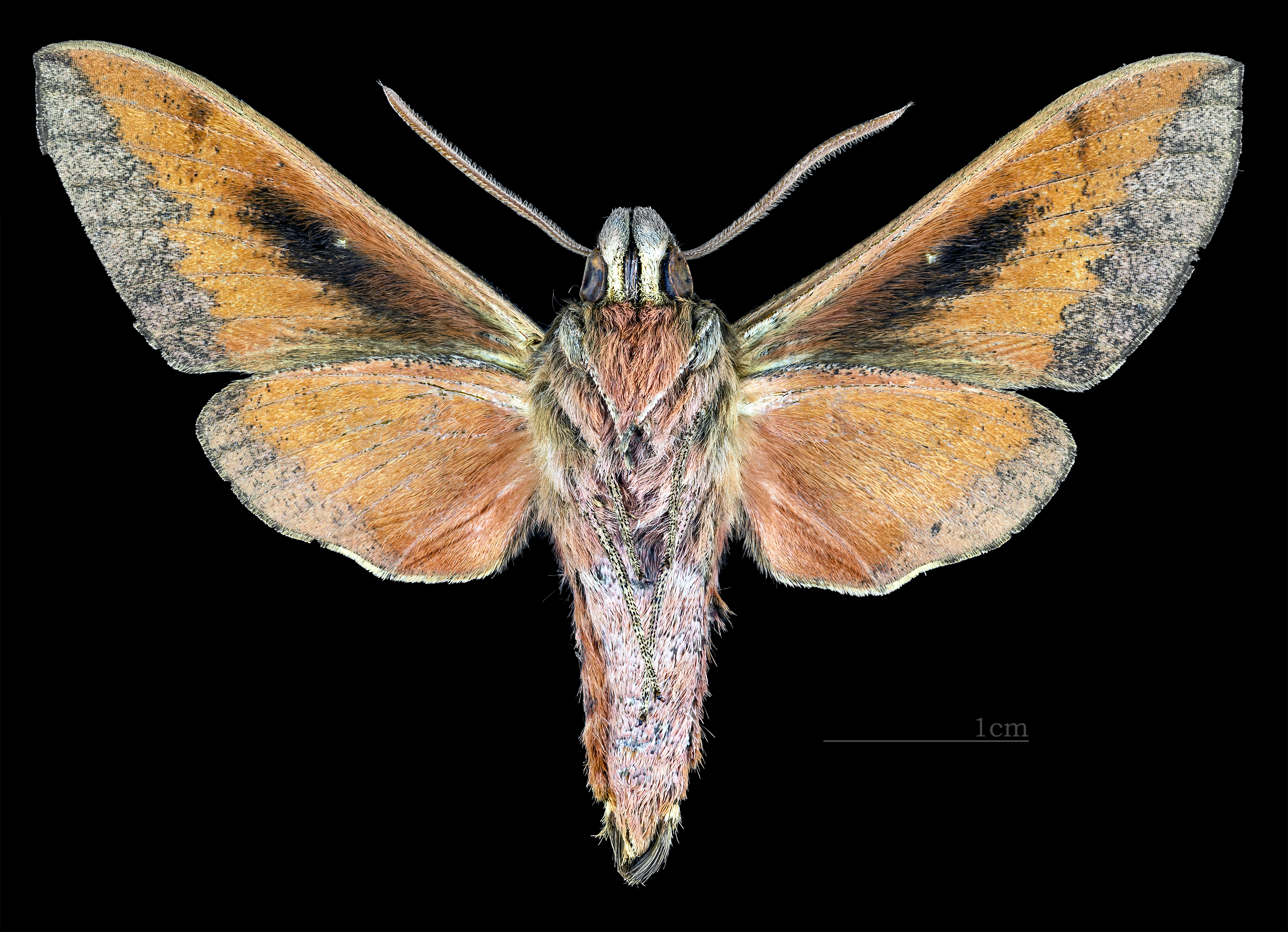 Hawaiian sphinx - △ Ventral side